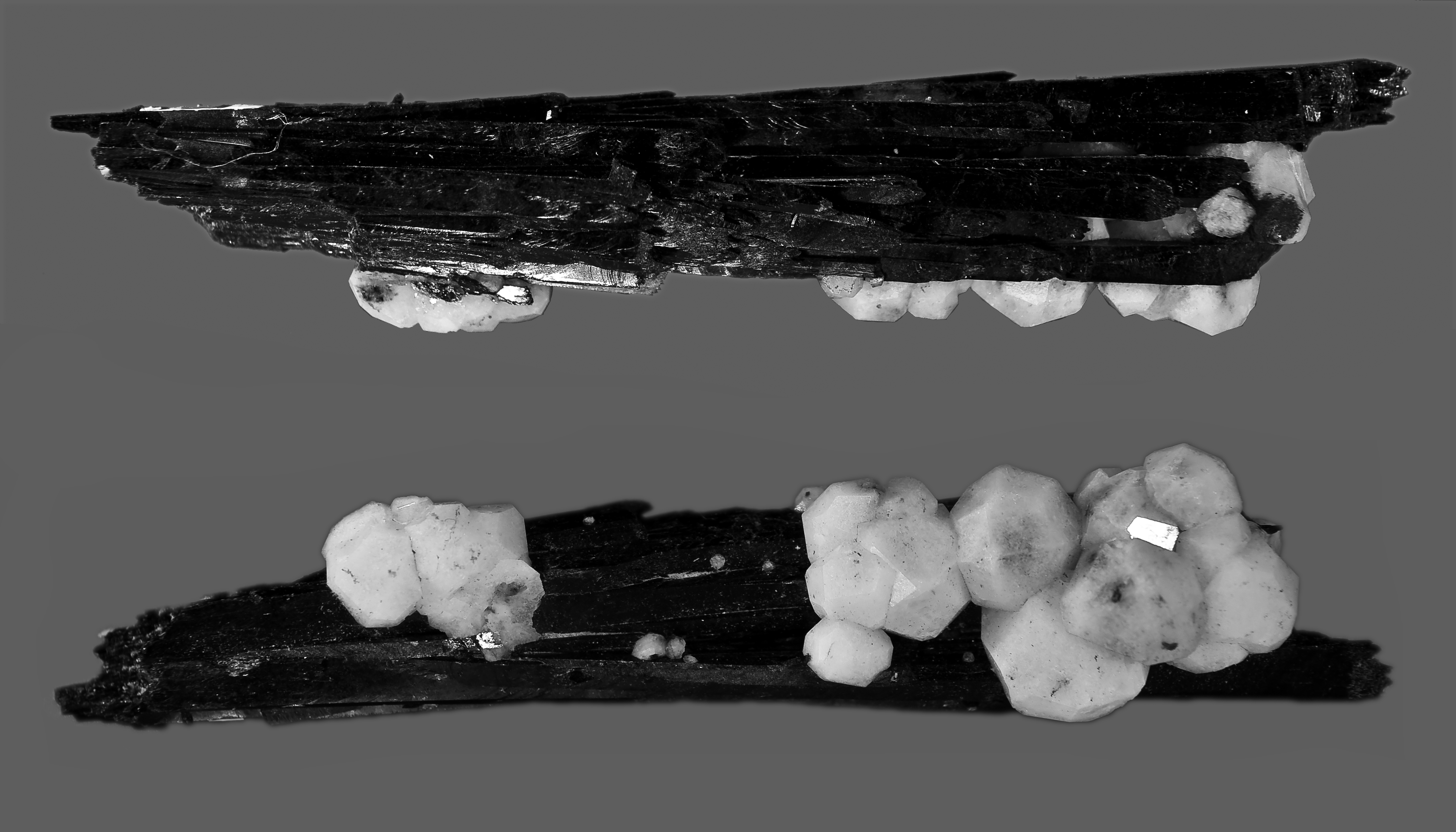 Aegirine and analcime - Poudrette quarry (Demix quarry; Uni-Mix quarry; Desourdy quarry), Mont Saint-Hilaire, Rouville Co., Montérégie, Québec, Canada - Two sides of same specimen - 6cm